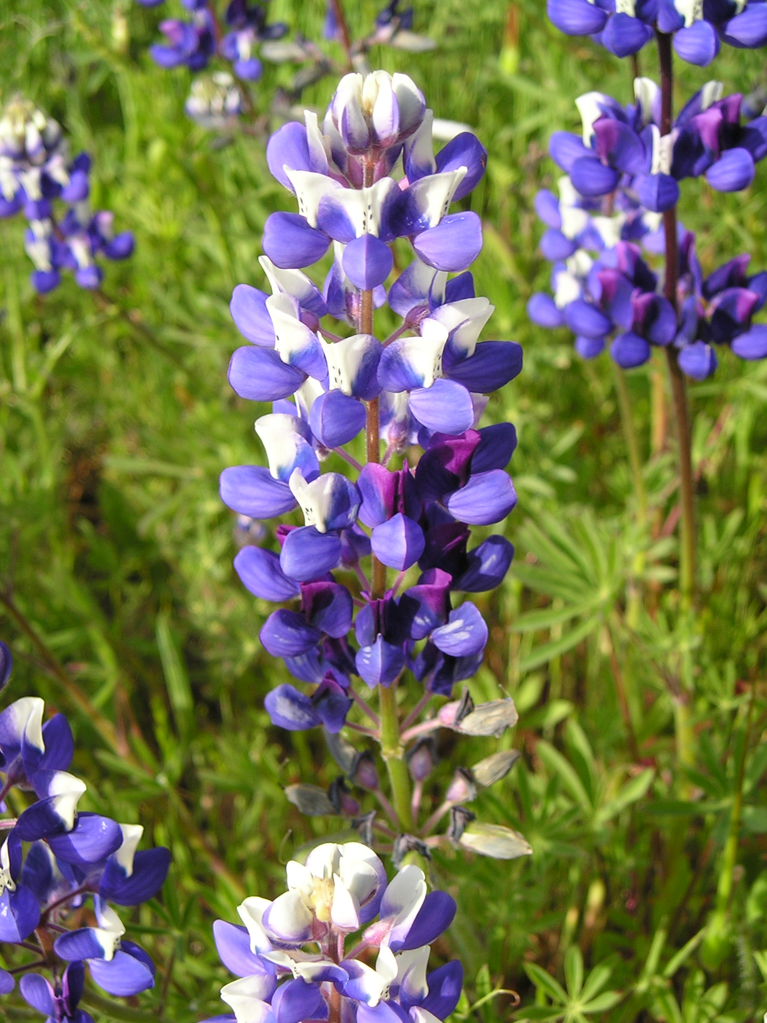 Lupinus bicolor, but see File talk:Lupinus bicolor.jpg